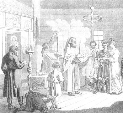 Russian peasant wedding. Engraving by K. Wagner. 1812.